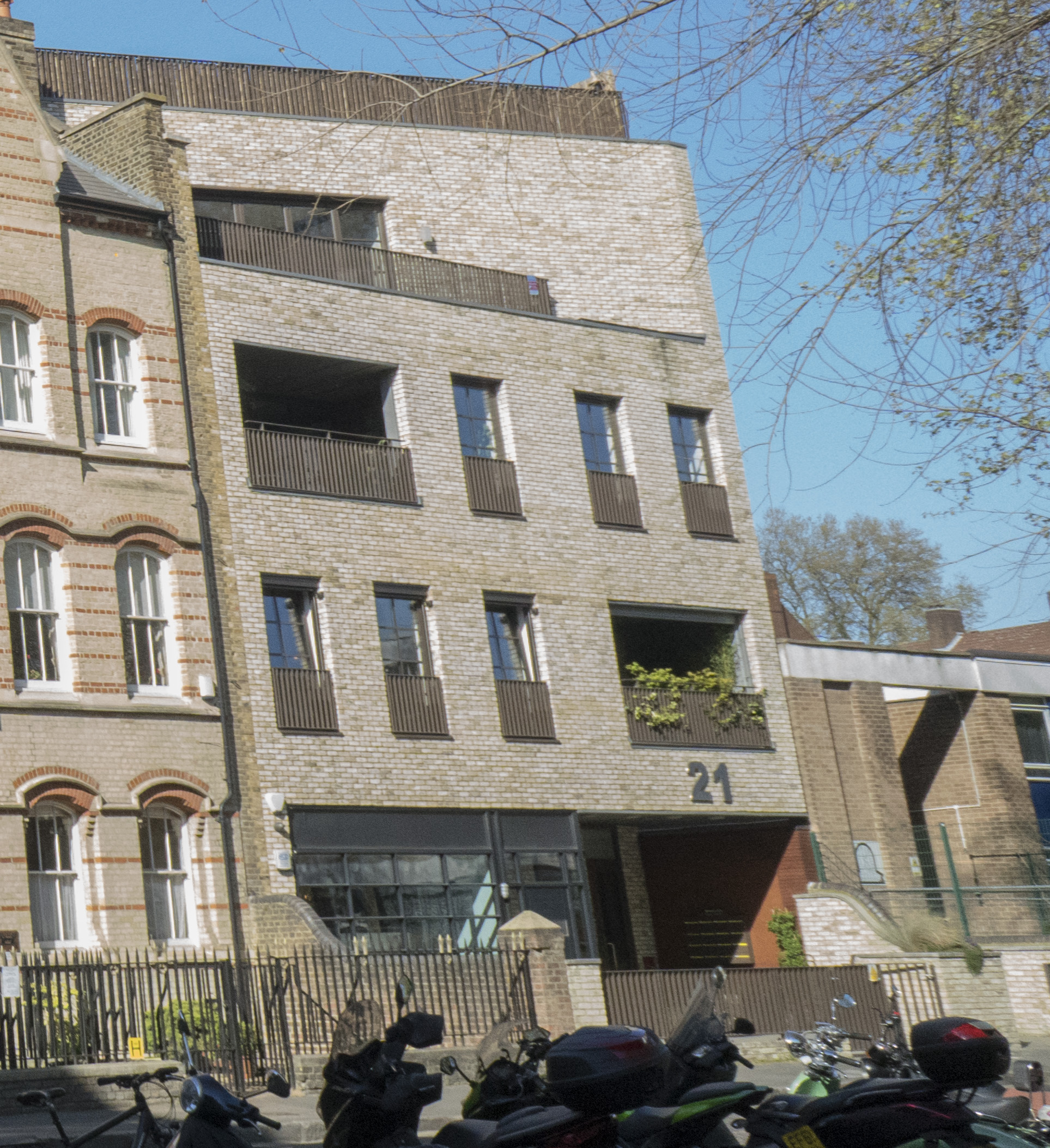 Church of St Monica and Priory Of The Augustinian Friars